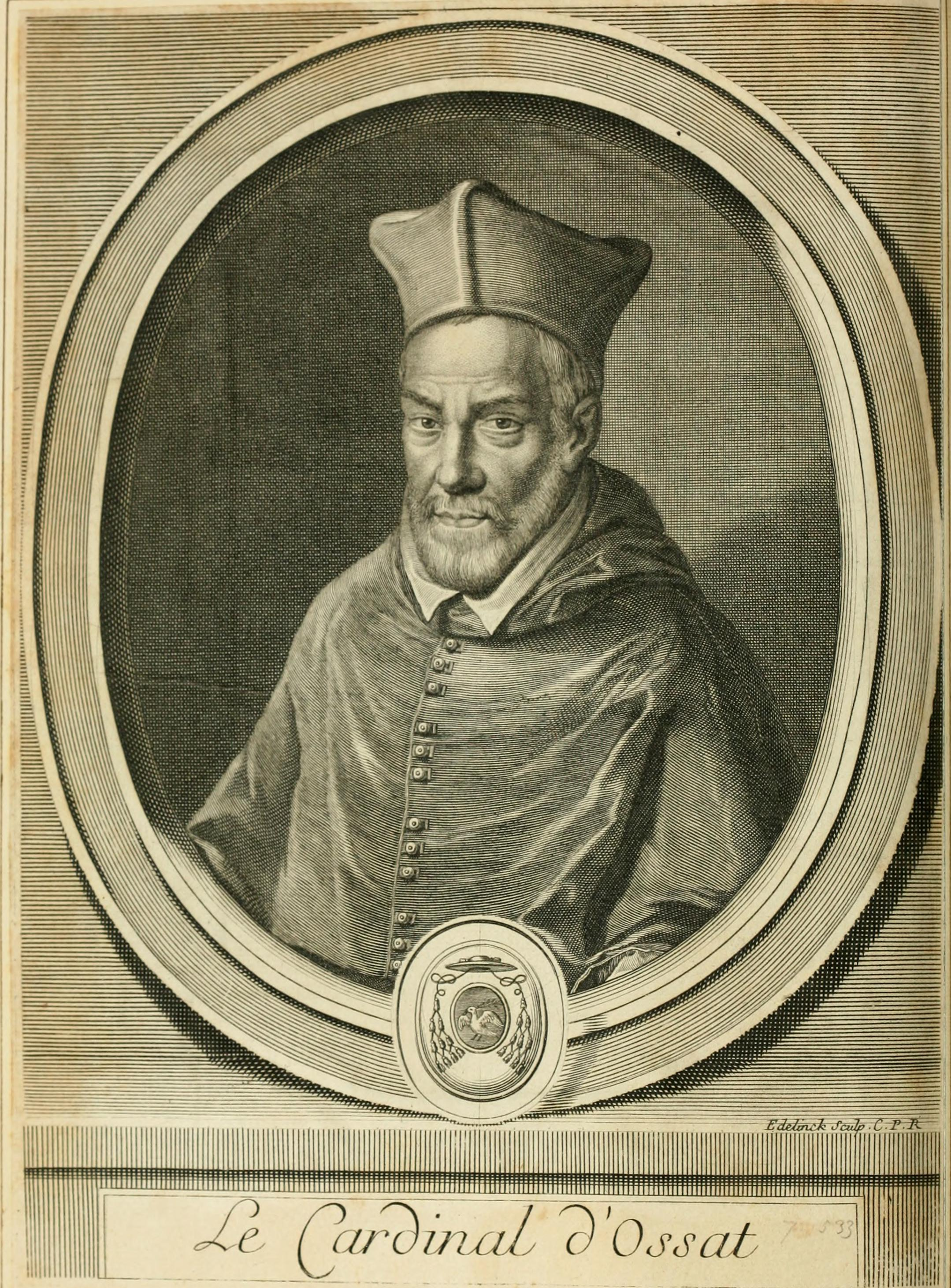 Cardinal Arnaud d'Ossat Title: General biography; or, Lives, critical and historical, of the most eminent persons of all ages, countries, conditions, and professions, arranged according to alphabetical order Year: 1818 (1810s) Authors: Aikin, John, 1747-1822 Enfield, William, 1741-1797 Subjects: Biography Publisher: London : Smeeton